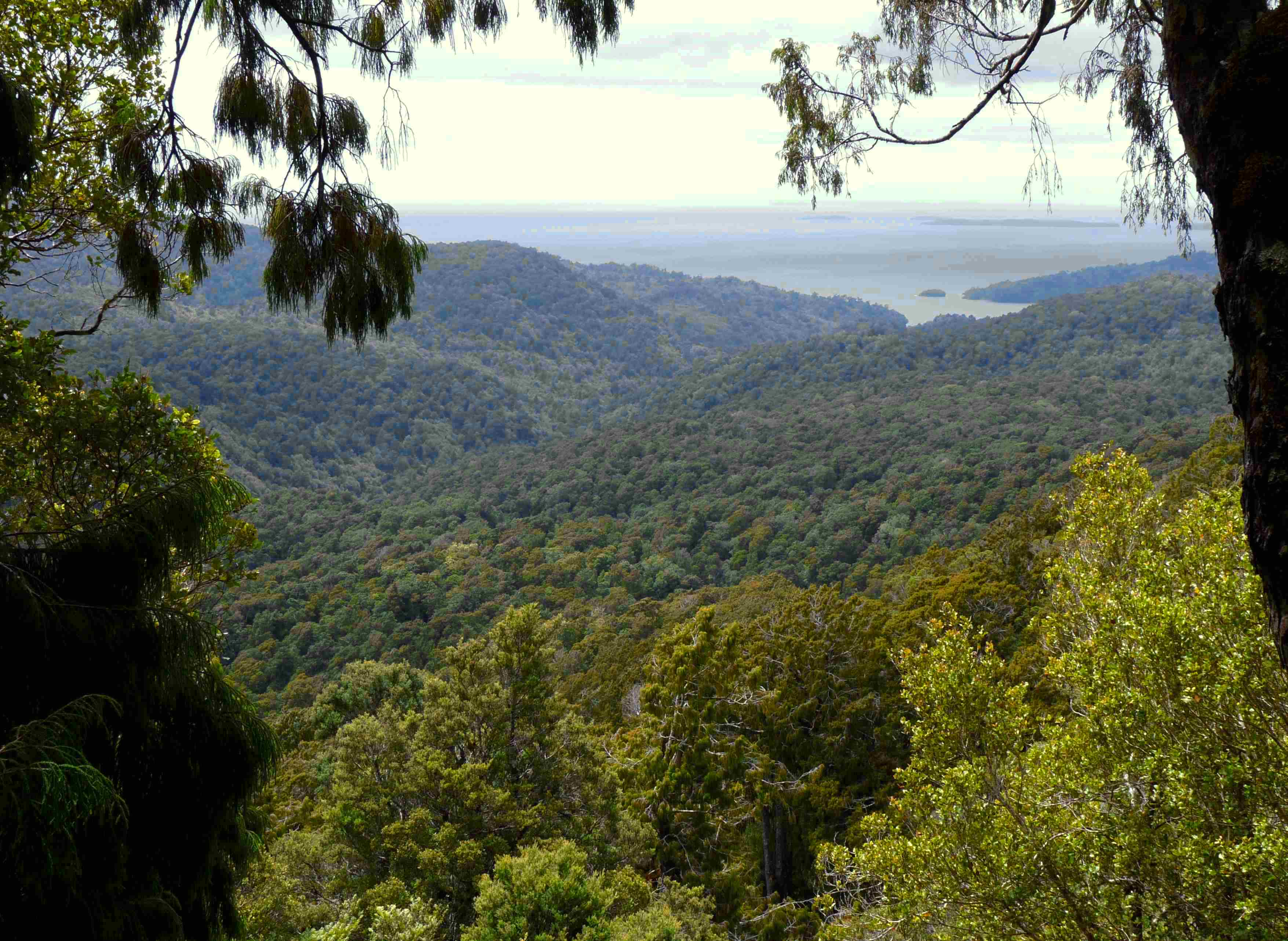 Overview of the forest in Rakiura National Park, Stewart Island, New Zealand.